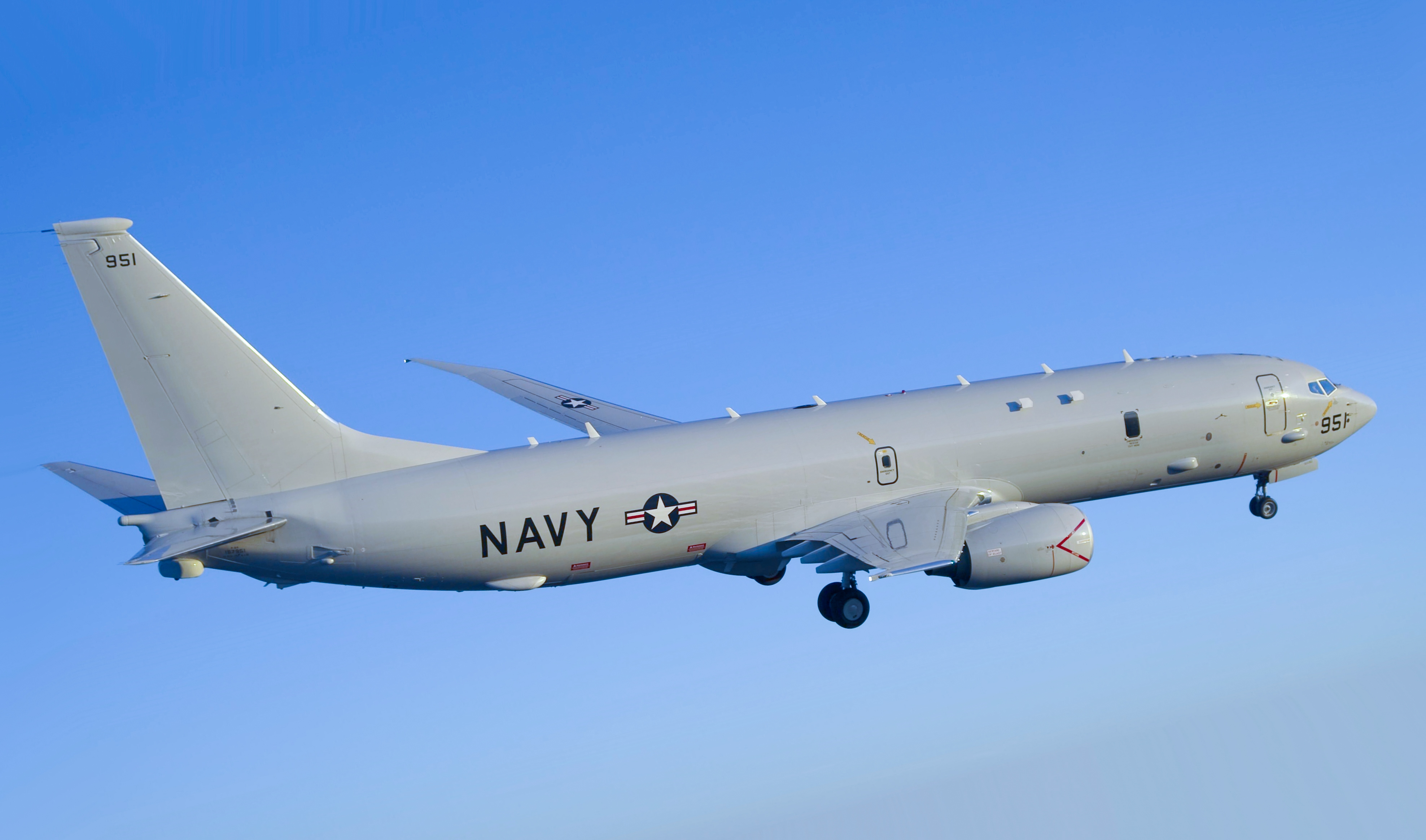 A P-8A Poseidon assigned to the Bureau of Air Test and Evaluation Squadron (VX) 20 flies over the Chesapeake Bay. VX-20 is part of Naval Test Wing Atlantic.